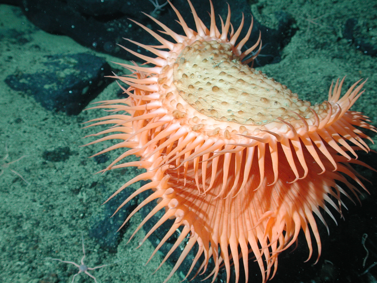 Fly-trap anemone (Actinoscyphia aurelia) on the slope of the Davidson Seamount (1874 meters depth).